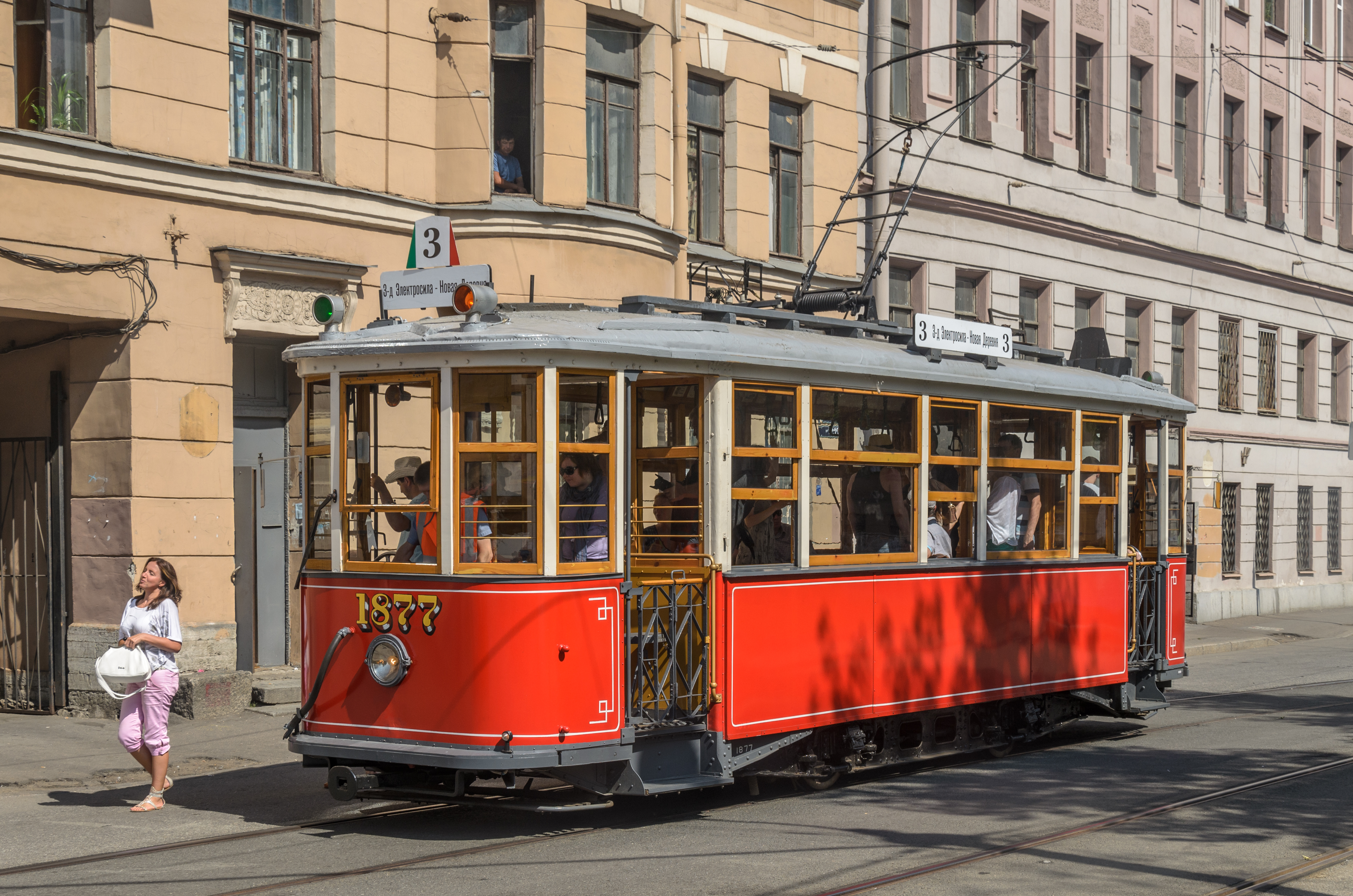 Tram MS-1 at Repina Square in Saint Petersburg